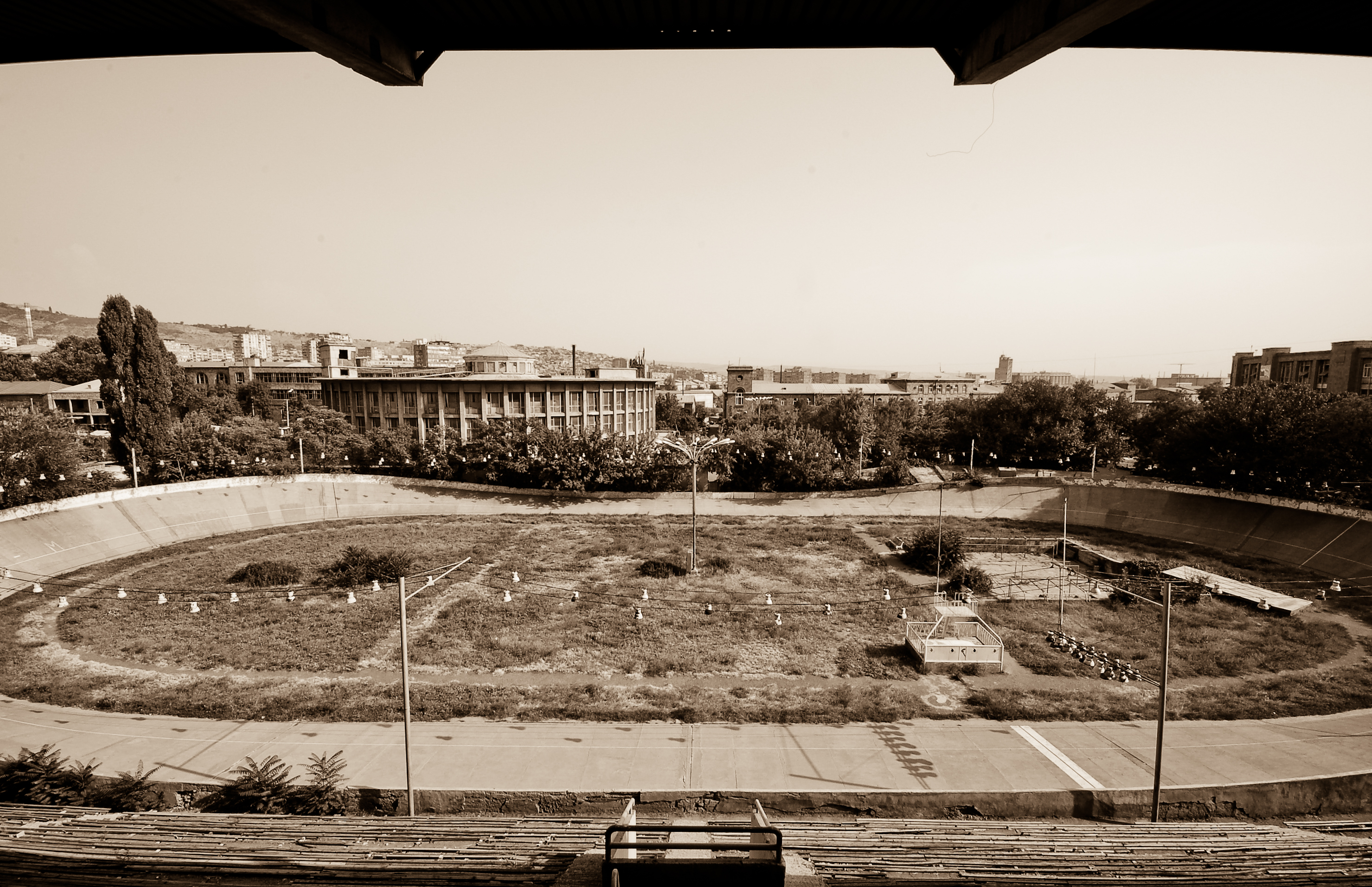 The old velodrome of Yerevan, with the old building of the circus in the background.